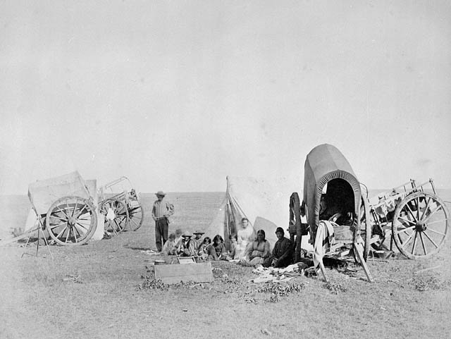 Camp scene of Métis people with carts on prairie. Manitoba, Canada